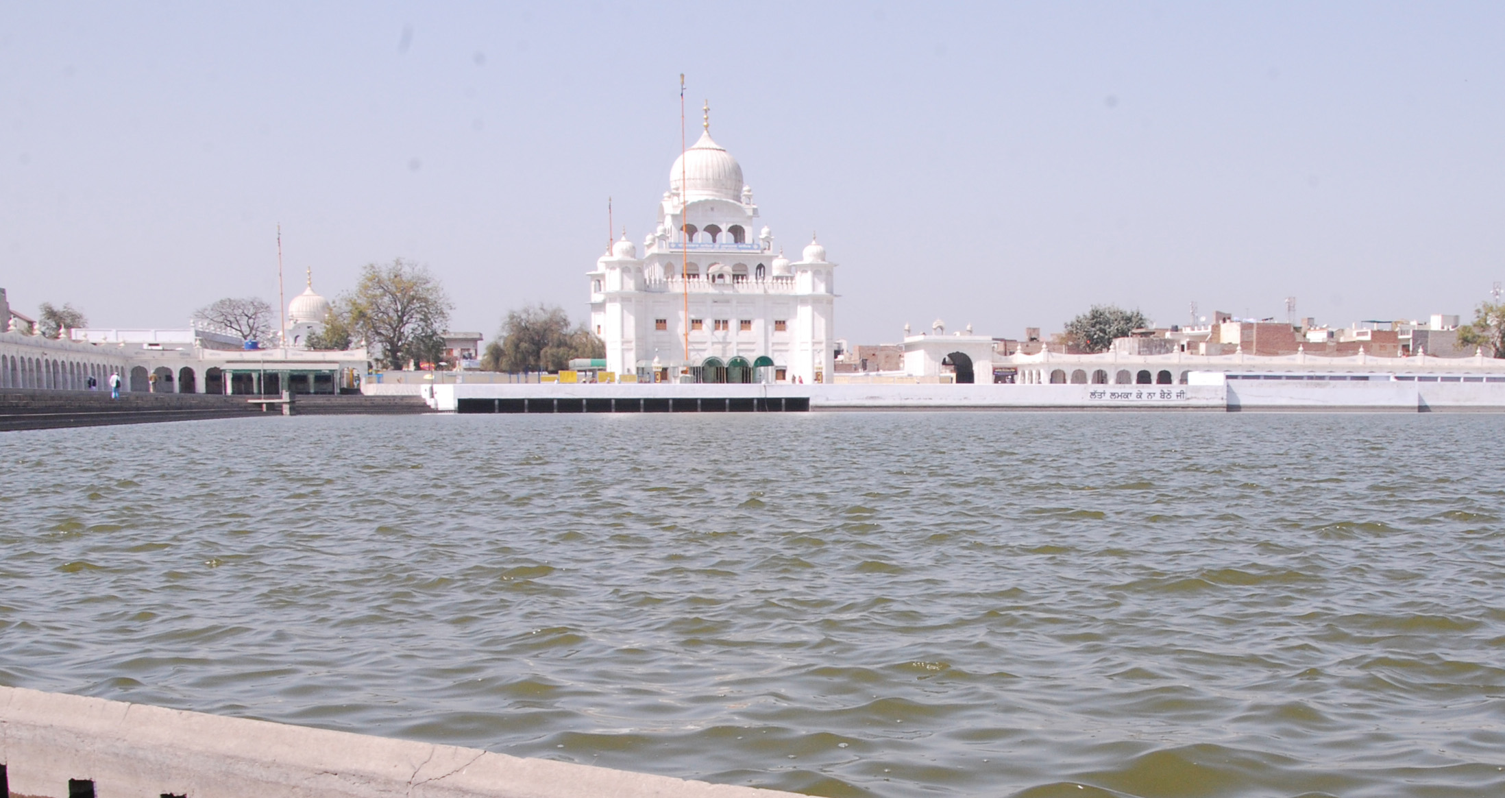 Gurudwara Muktsar Sahib